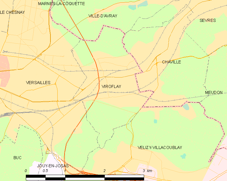 Map of French municipality Viroflay